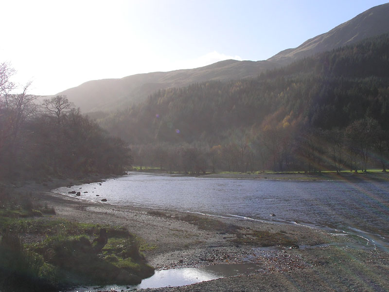 Loch Lubnaig in Scotland, taken by me on 10th November 2004.